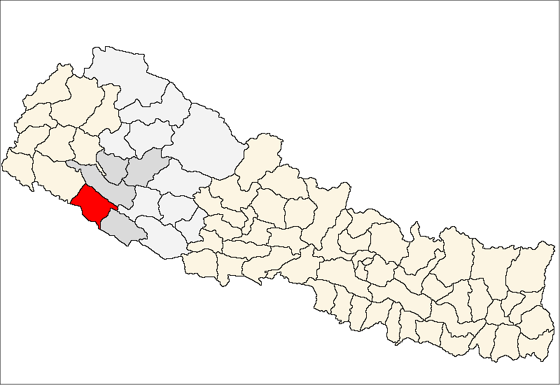 FrenchCarte de localisation dudistrict de Bardiya(wp-FR),au Népal (wp-FR).EnglishLocation map ofBardiya District(wp-EN),in Nepal (wp-EN).